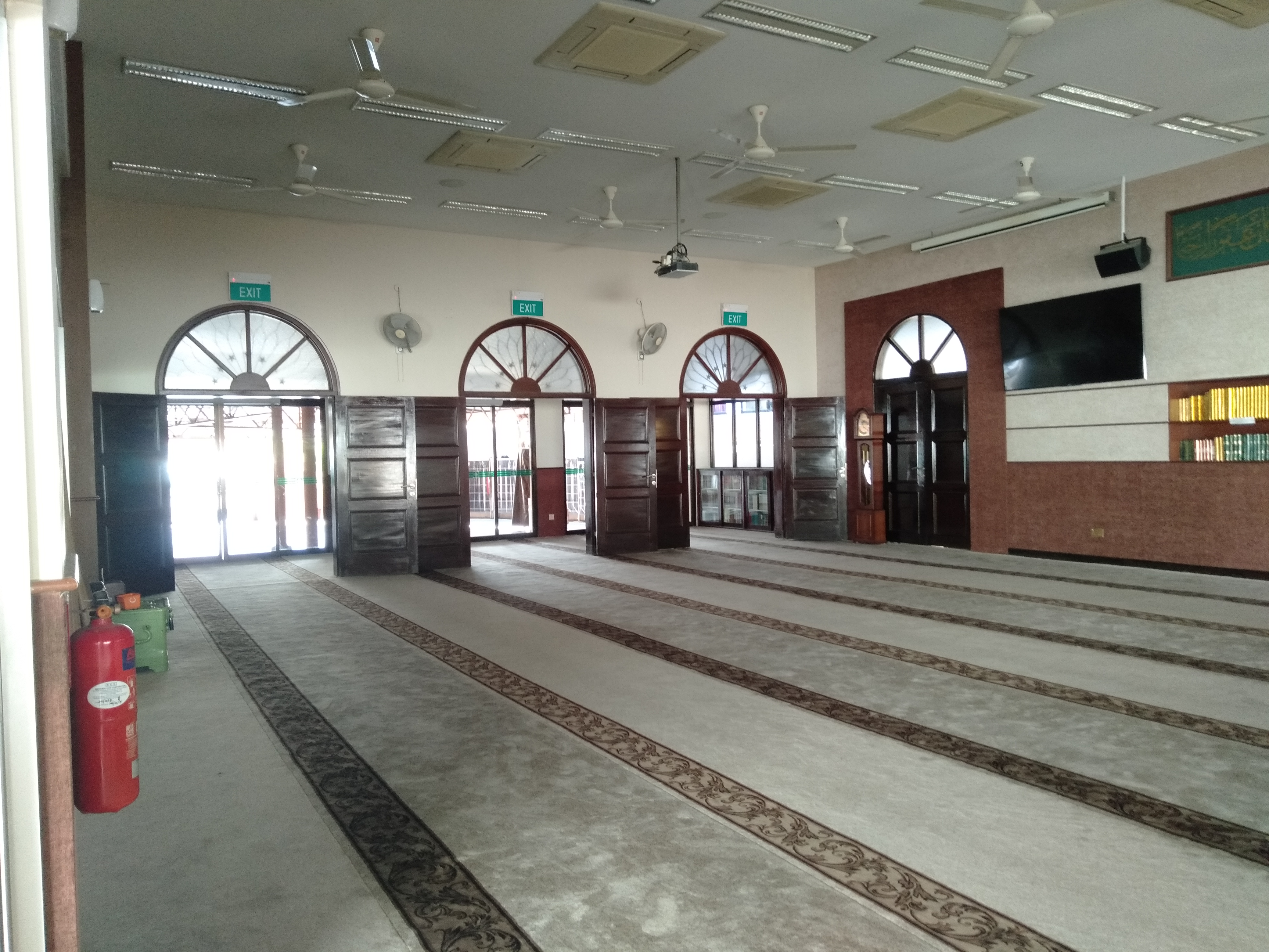 Main prayer hall (photo angle - facing towards the arches of the door)